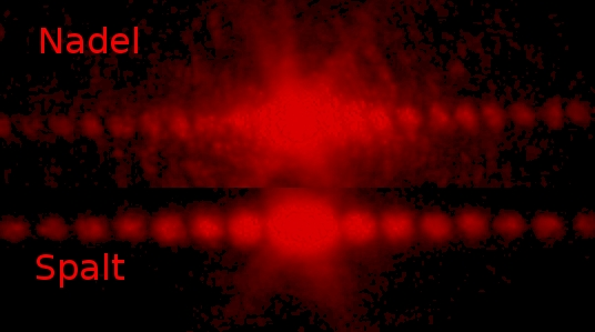 Diffraction pattern of a needle (top) and a slit, which had approximately the same width. Light comes from a laser pointer.